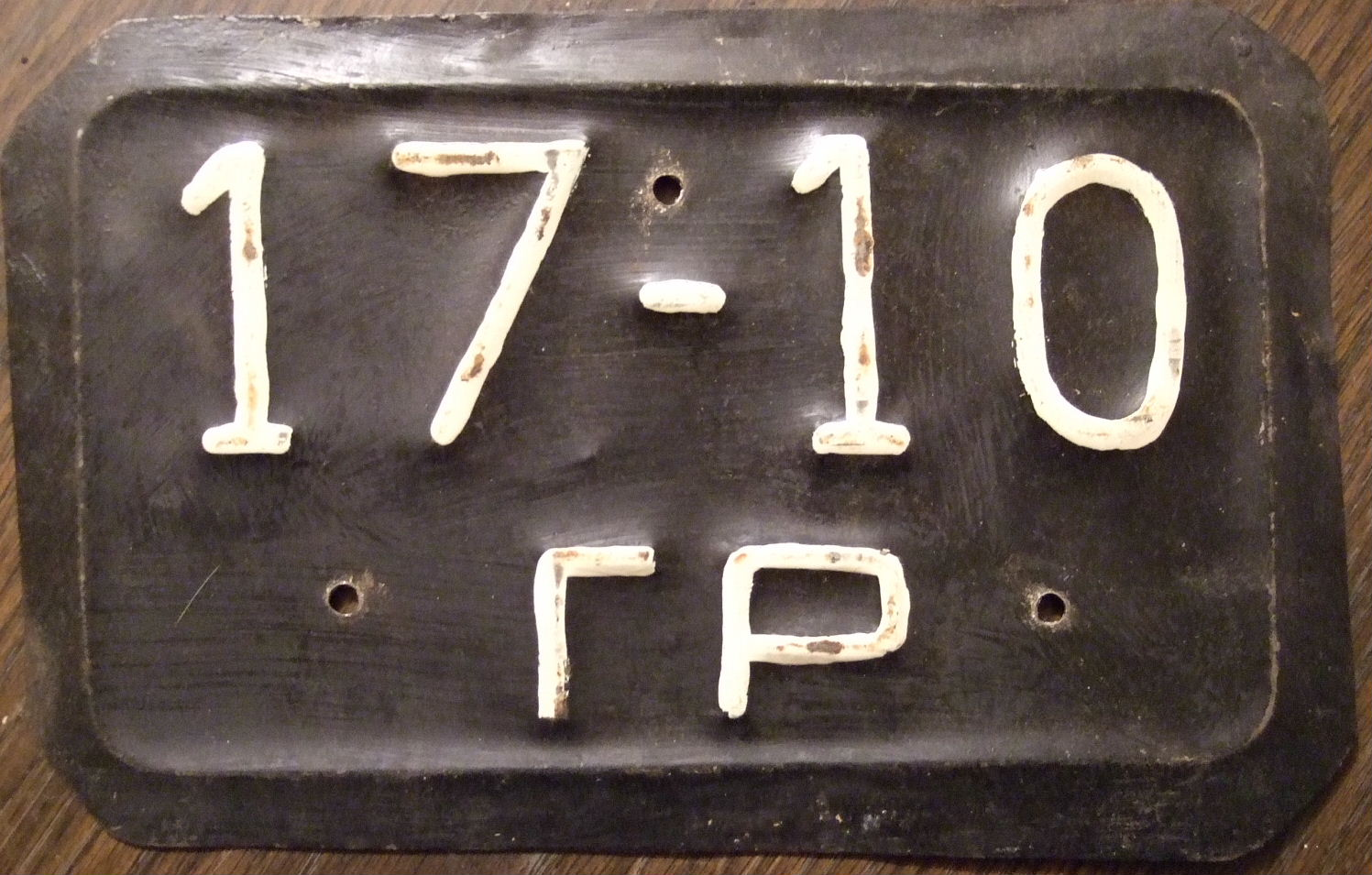 Here is a crudely cut and embossed hand painted Soviet military plate found in the Gerogia Republic.